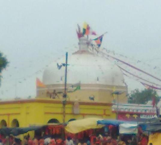 This is a temple of Lord Shiva in Barhampur.